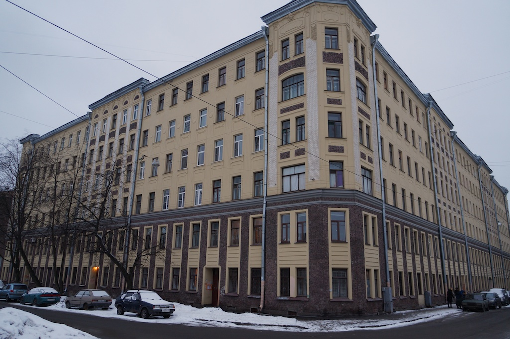 Bobruisk street - 6